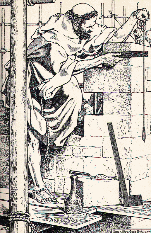 "Herlwin Building His First Church", from "The Founding of St Marie du Bec", p. 20.